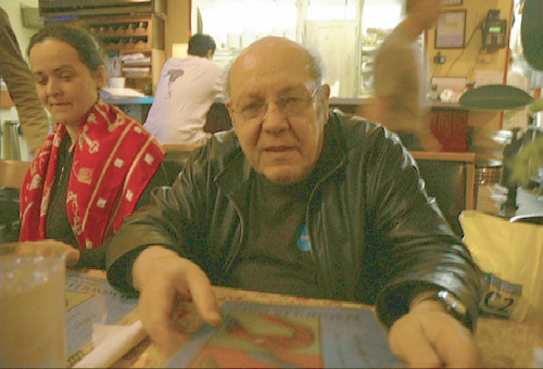 Misha Mengelberg in Austin, Texas april 2006. Mengelberg is a Dutch jazz pianist and composer associated with Fluxus